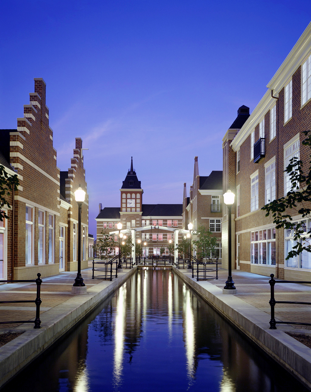 Molengracht Canal Night